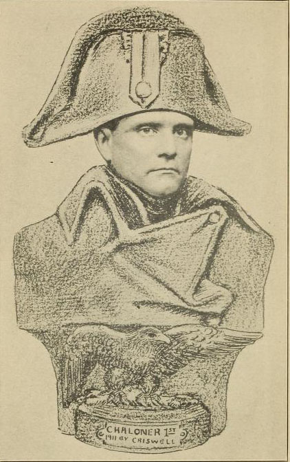 This is an image of John Armstrong Chaloner, taken from Robbery Under Law, a play. Chaloner included this image as he believed that it proved his resemblance to Napoleon Bonaparte.